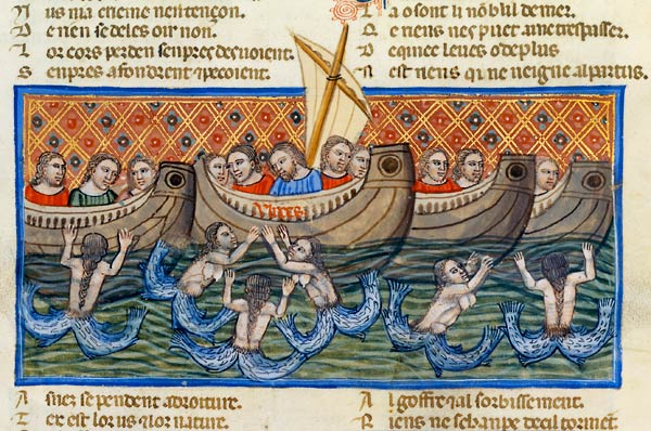 Miniature from Benoît de Sainte Maure's "Le Roman de Troie".